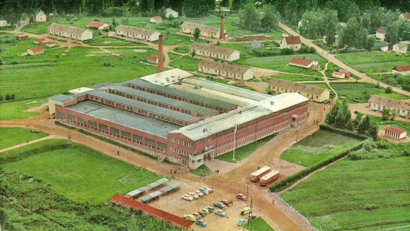 Valmet factory at Jyskä sometime in the 1970s. Jyskä is now part of the city of Jyväskylä and the area has been later (1990s–2000s) occupied by the factory of Landis+Gyr Enermet, now part of Landis+Gyr.